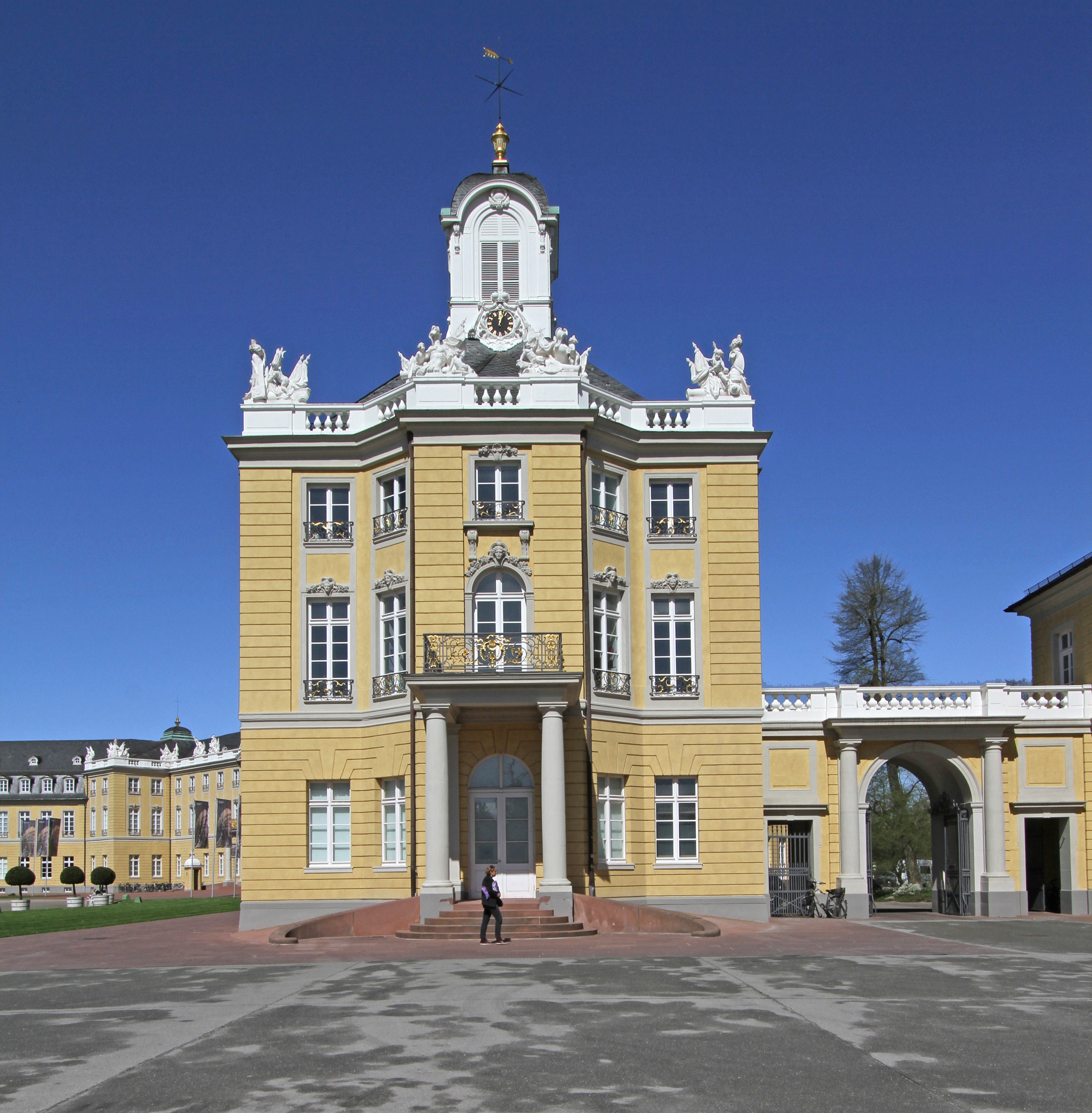 Karlsruhe Palace